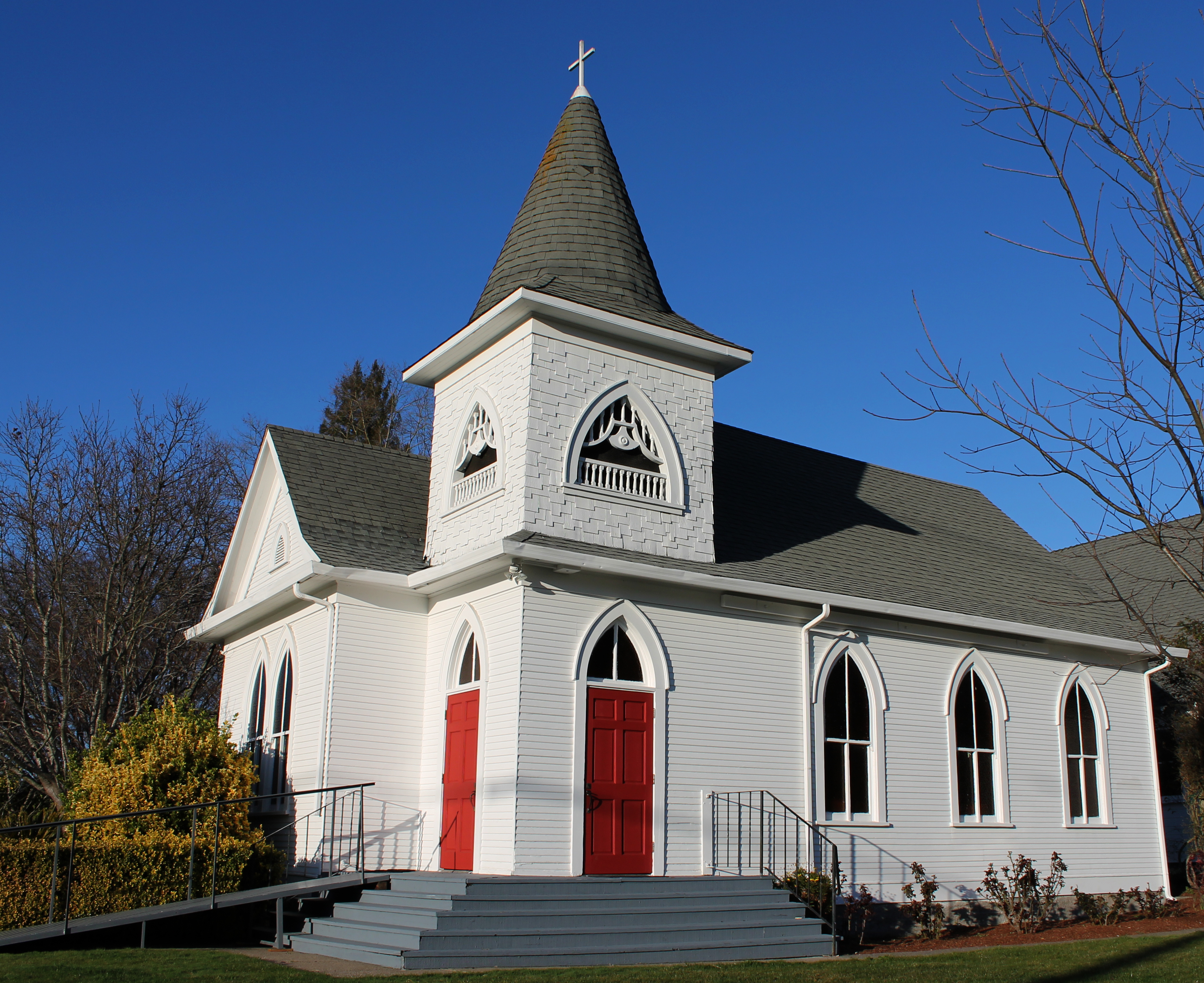 photograph of the chapel of the Church of the Oaks (constructed in 1907) located on West Sierra Avenue at Page streets in Cotati, California